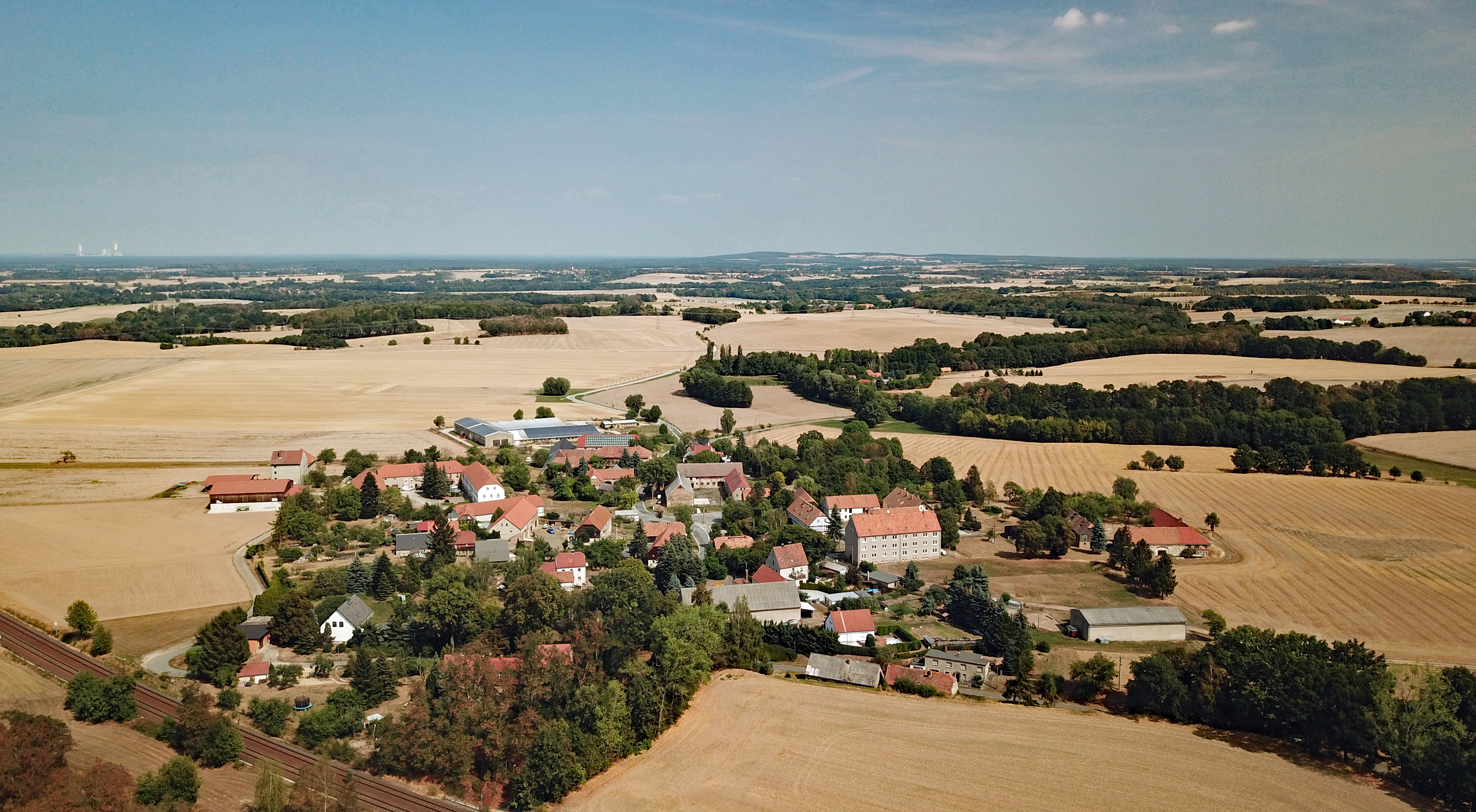 Kohlwesa (Hochkirch, Saxony, Germany) Hornjoserbsce: Powětrowy wobraz Kołwaza